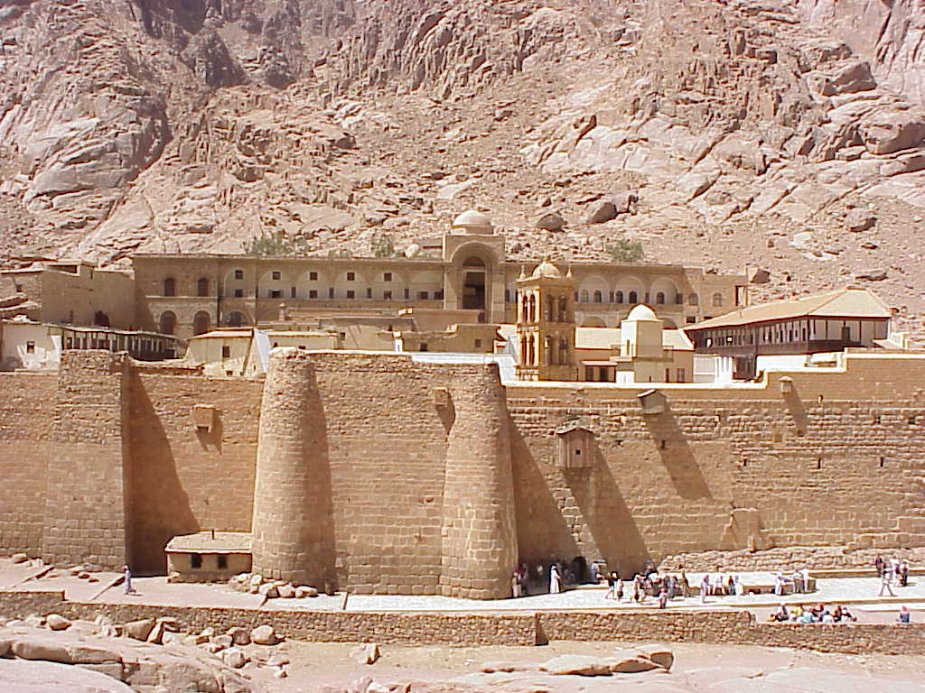 Santa catarina Monestry near jebel Musa in south Sinai, Egypt. It claims that it contains the burnning bush of Moses.